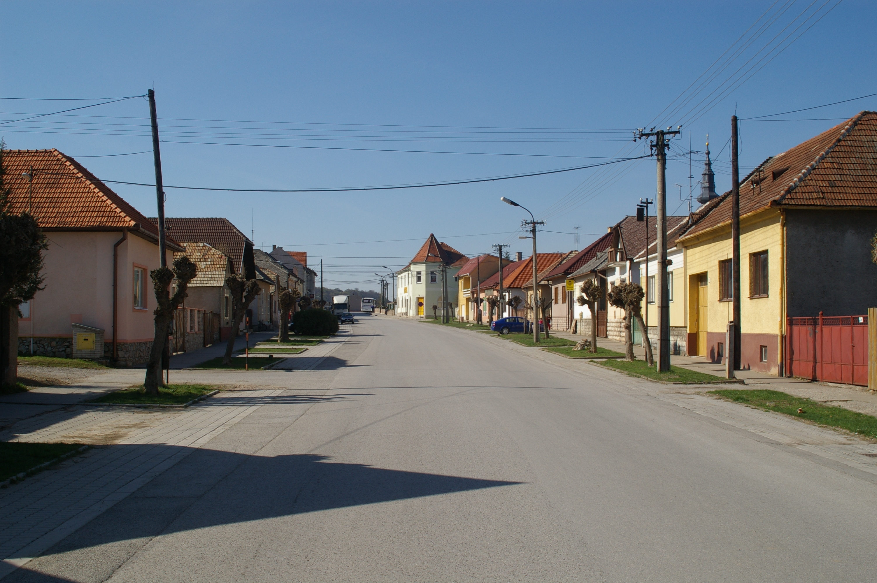 Plešivec - centre